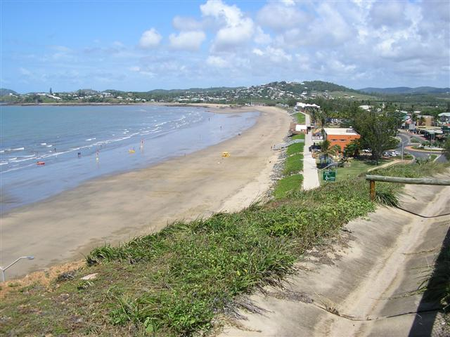 Viewing south over Yeppoon. The orange building is Yeppoon Surf Life Saving. There is a highway just between the beach and the hill that would take you to the Rydges Capricorn Resort and more small towns. I took this photo 2005 and I hereby release it into the public domain. Winxptwker 23:35, 26 June 2006 (UTC)